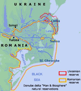 "Man & Biosphere" reserves in the Danube Delta